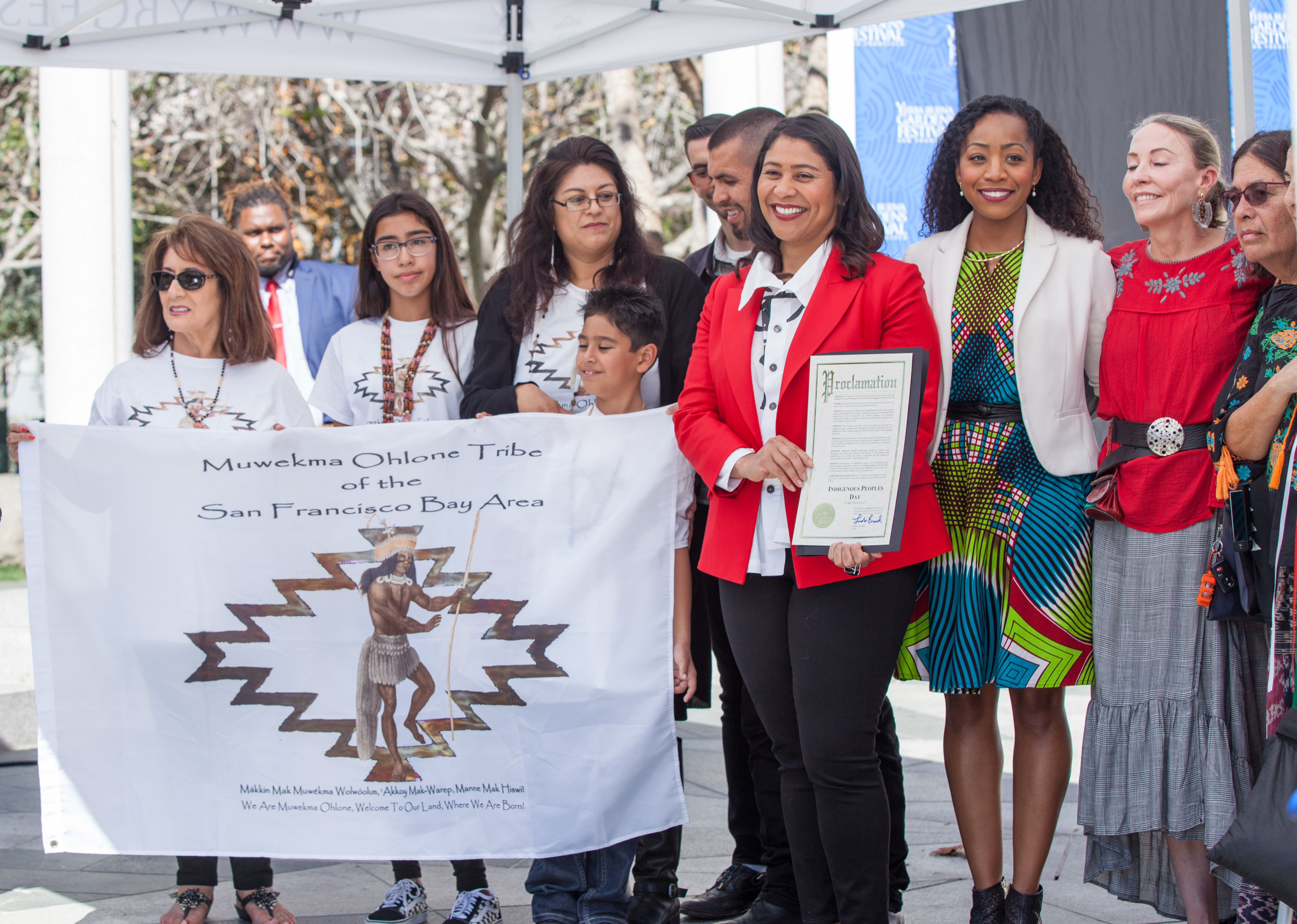 At a celebration of the first official Indigenous Peoples' Day in San Francisco, members of the Muwekma Ohlone Tribe stand alongside Mayor London Breed, Board of Supervisors president Malia Cohen, and Board of Supervisors member Vallie Brown.